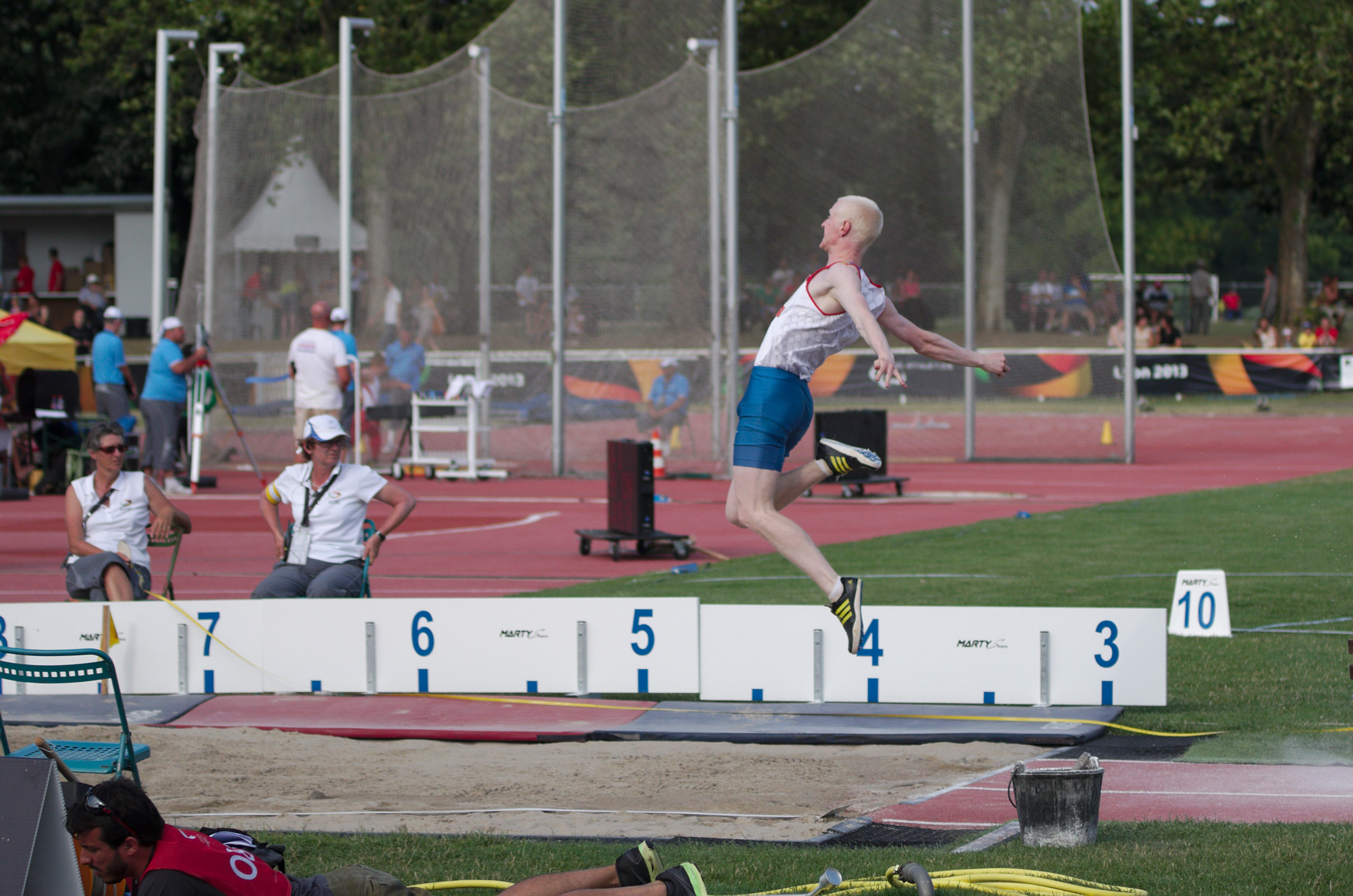 Evgeny Kegelev of Russia during the Men's Long jump - T12